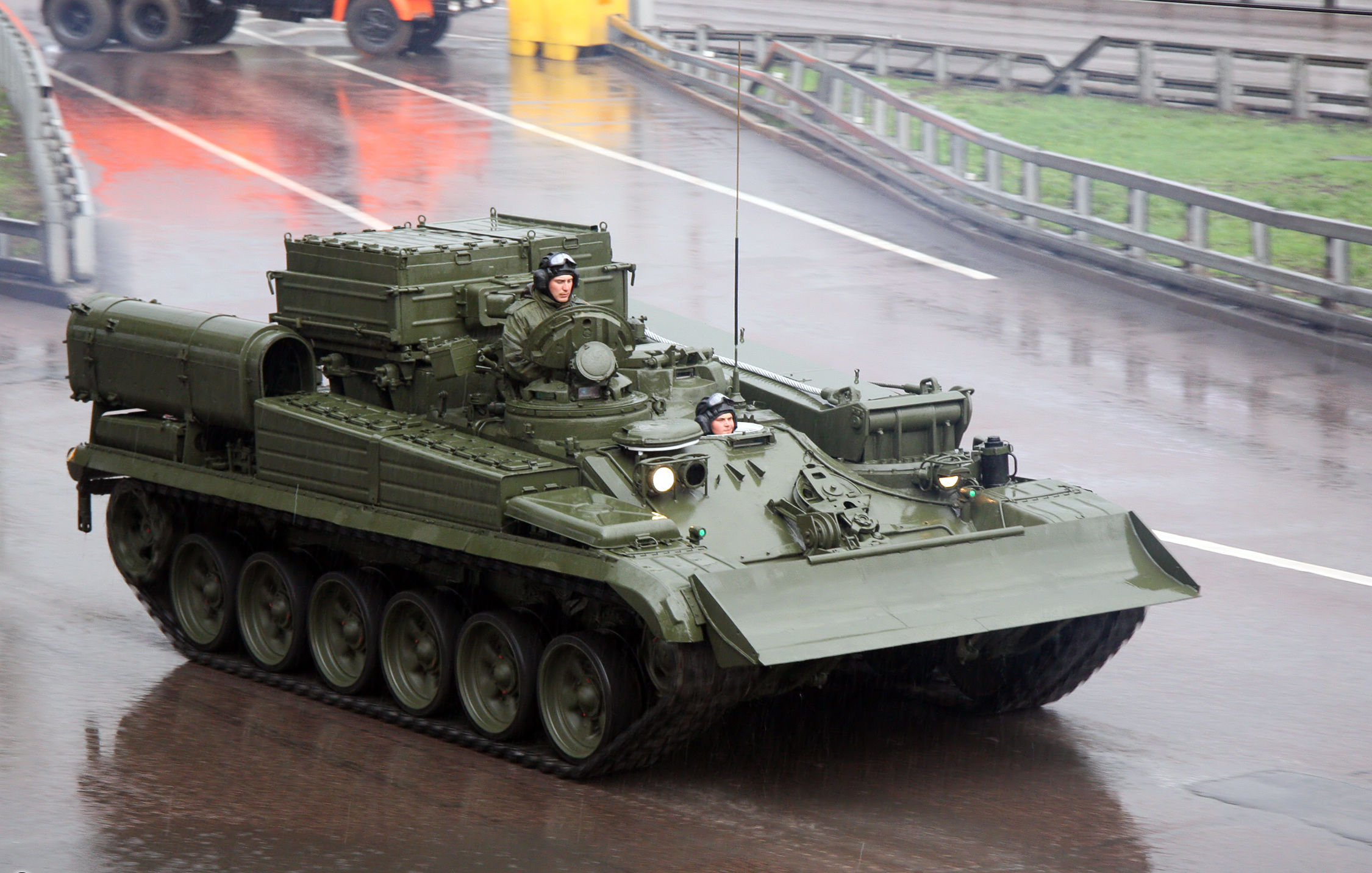 BREM-1